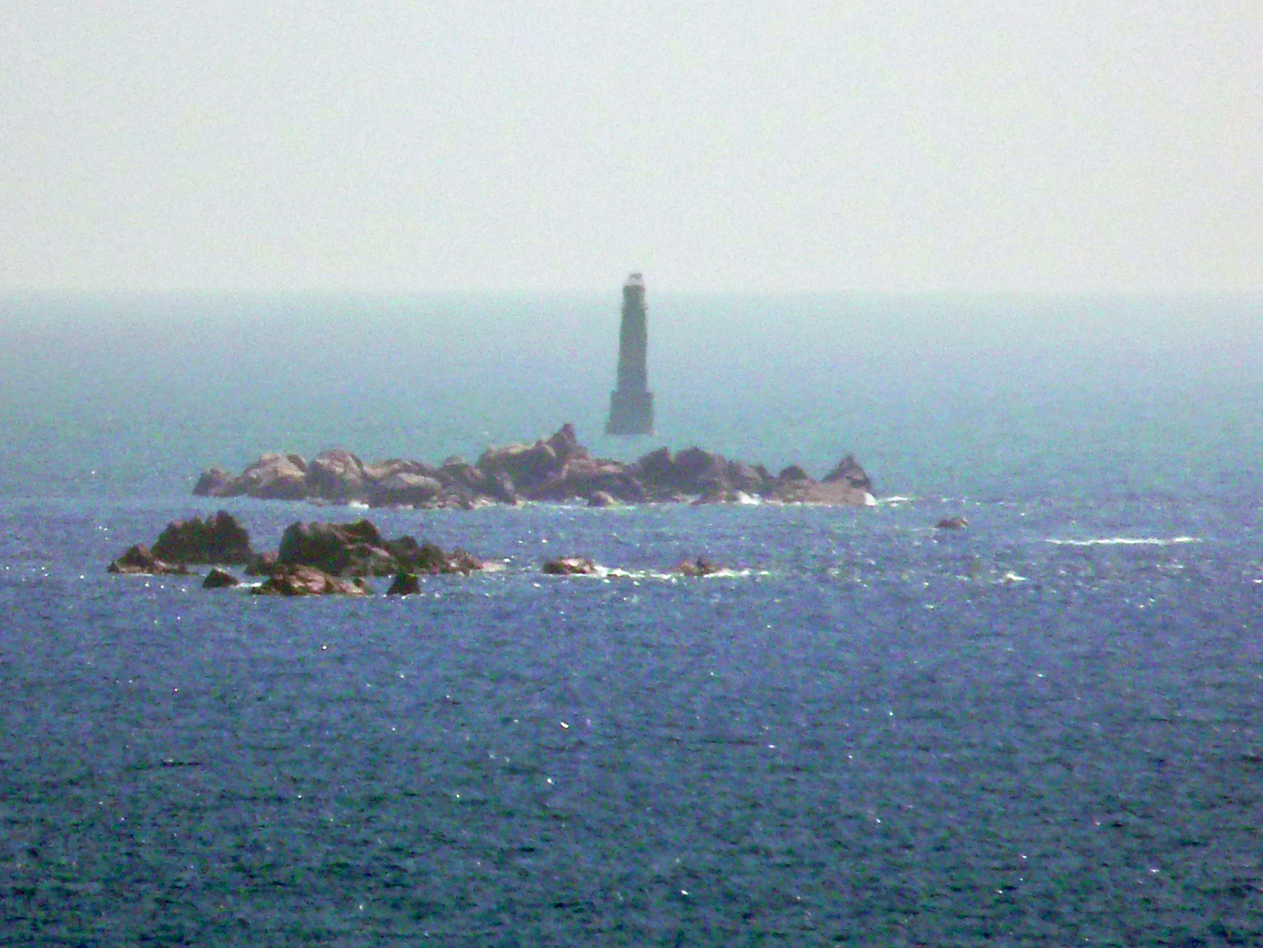 Îlots des Moines ("Monks' Islands") and the lighthouse, located 4 km southwest of cape Roccapina (Corse-du-Sud).